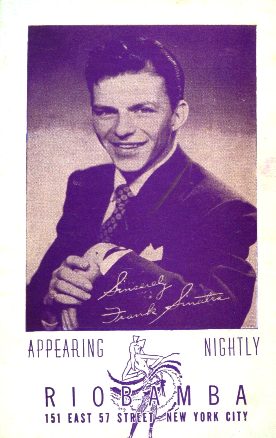 Postcard from the Riobamba nightclub promoting the appearance of Frank Sinatra in 1943. There are no copyright marks on the card.